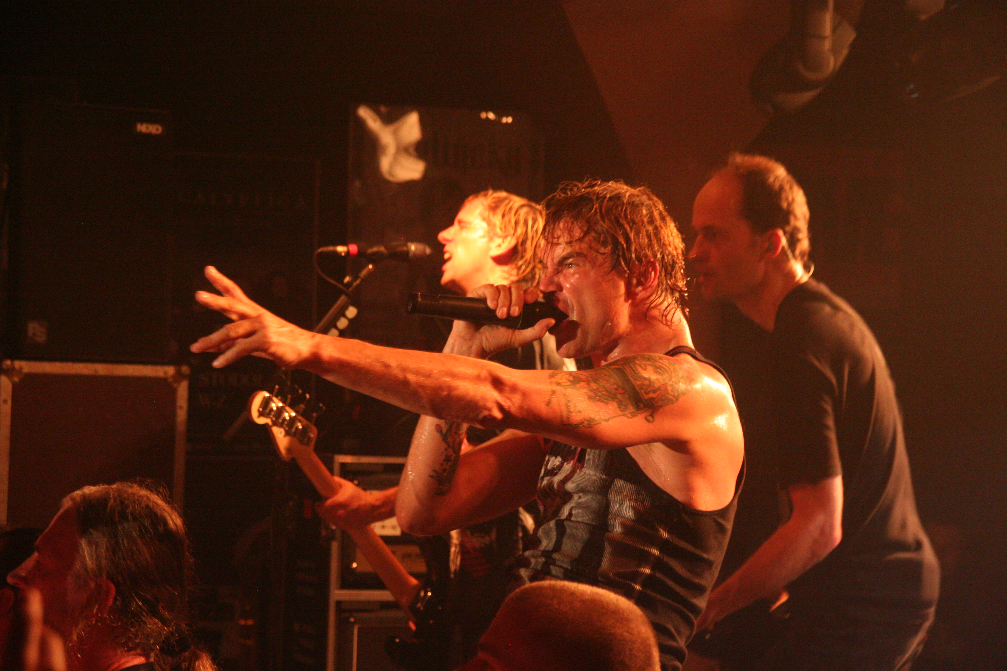 Campino in concert - Wroclaw 2010